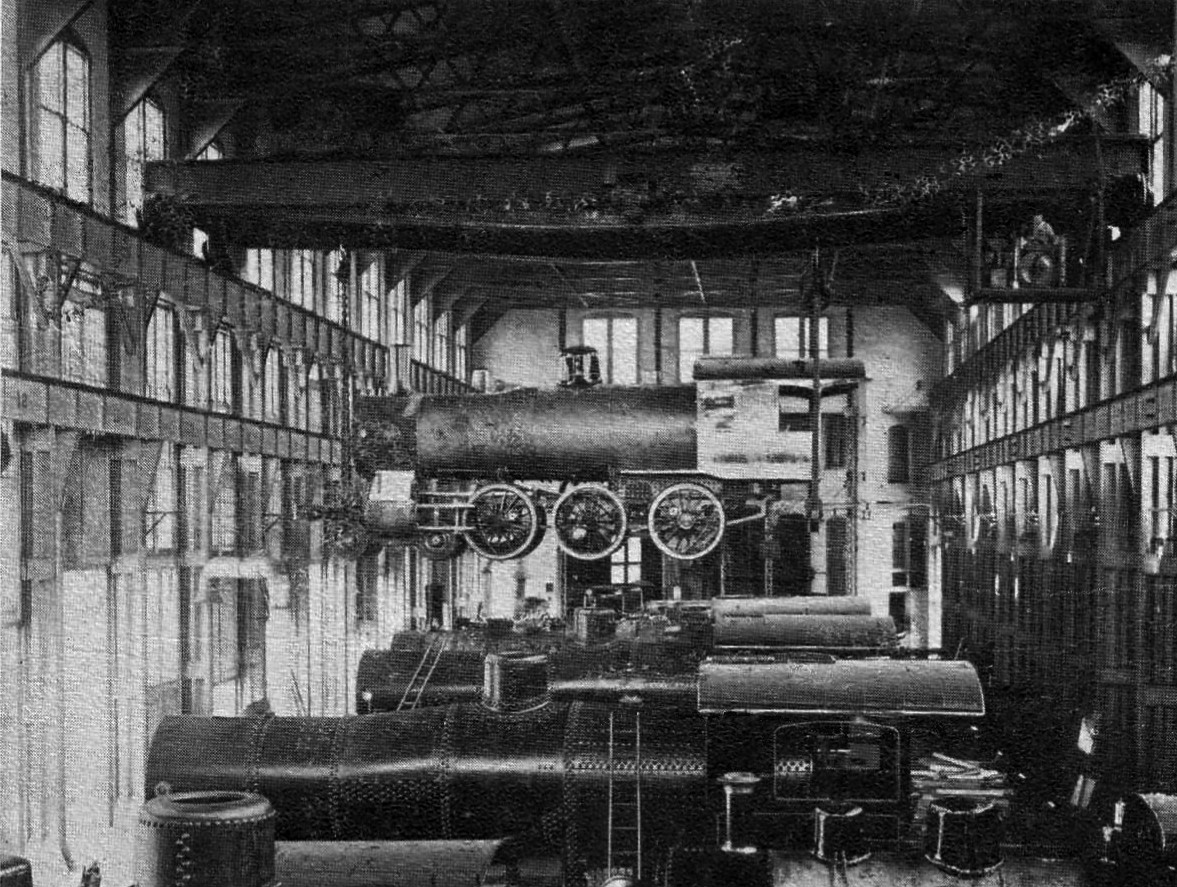 Postcard photo of the pain shop at ALCO's Brooks Locomotive Works in Dunkirk, NY.